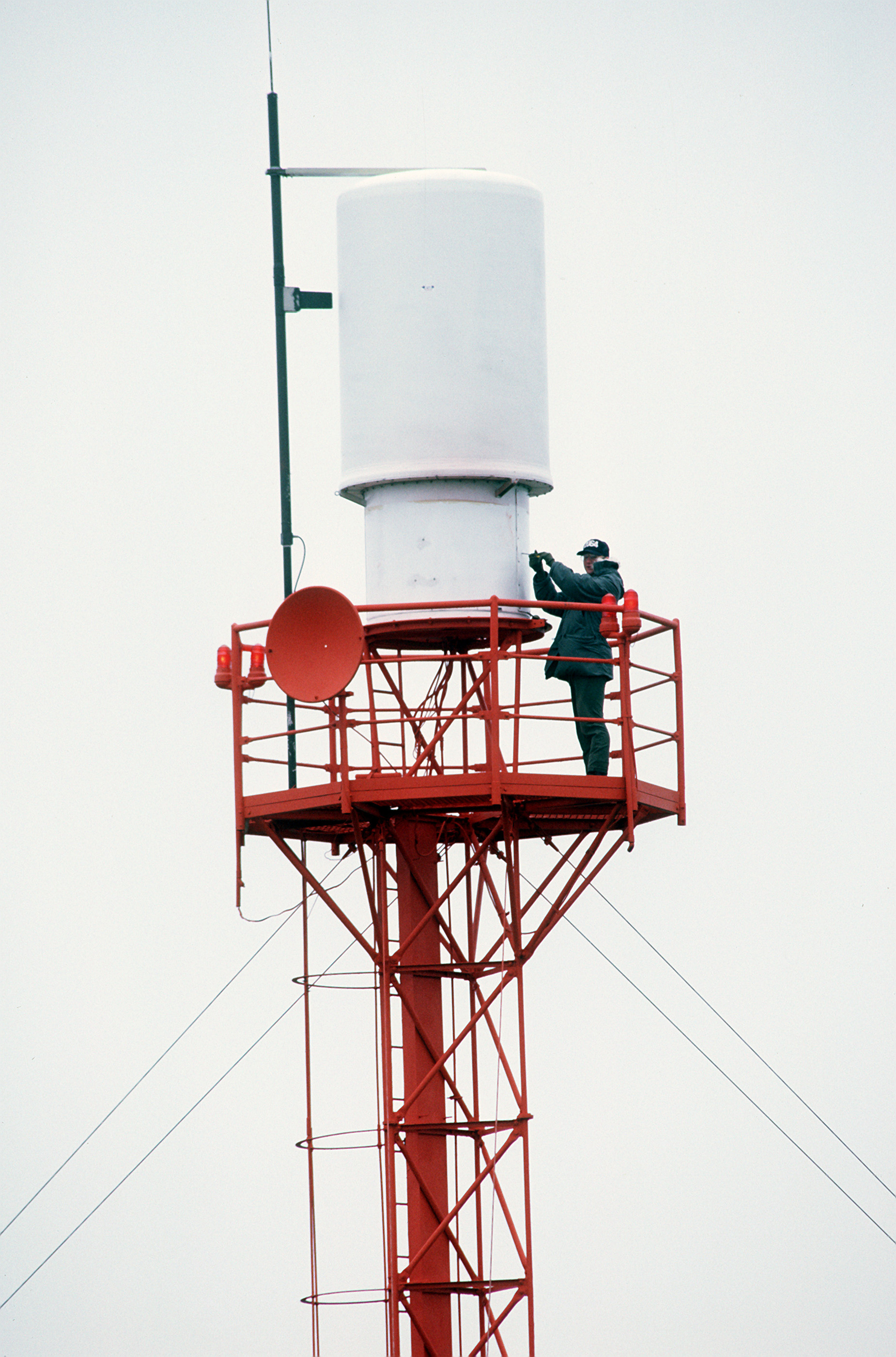 Airman 1st Class Steven Pendergrass, satellite communications operator with the 2064th Information Systems Squadron, prepares to remove the access panel on a GRA-120 antenna. Pendergrass will be inspecting the antenna and conducting preventive maintenance on the equipment, which is part of the base's tactical air navigational system.Location: SHEMYA AIR FORCE BASE, ALASKA (AK) UNITED STATES OF AMERICA (USA)